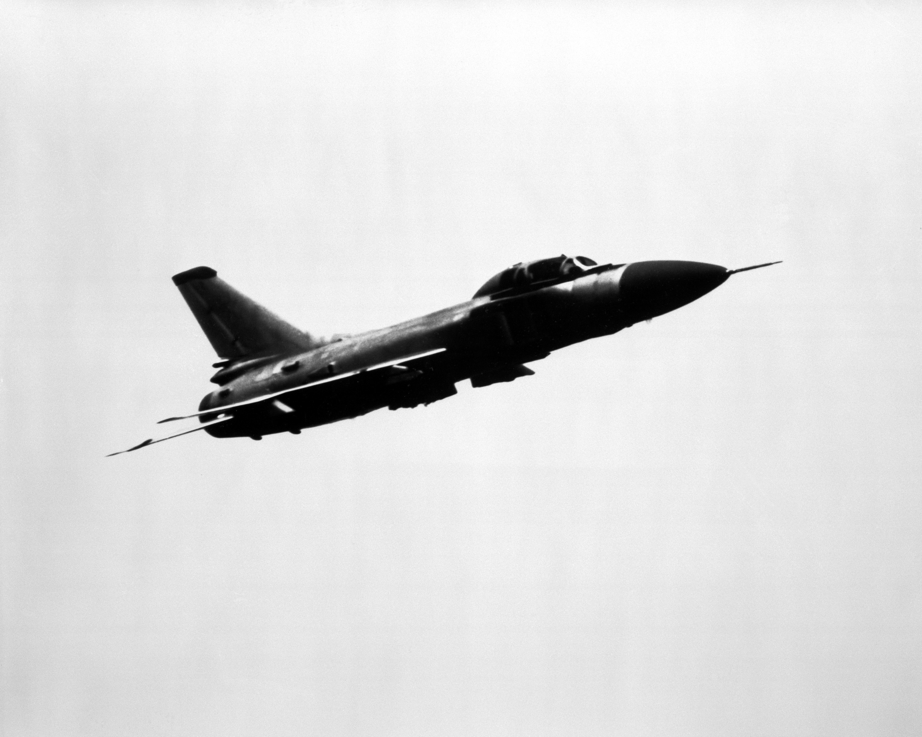 An air-to-air, right front view of a Soviet Su-15 Flagon-C aircraft.